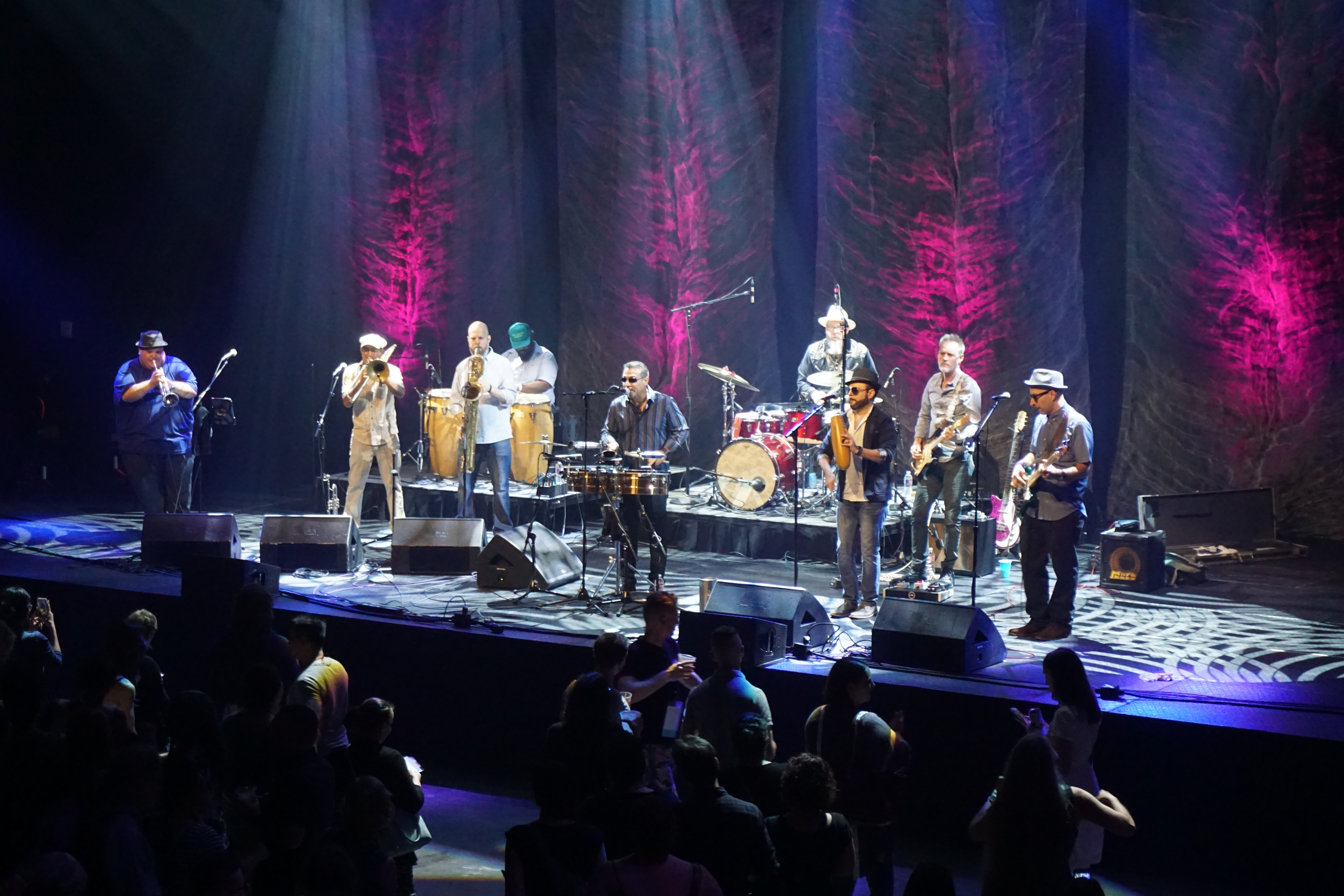 Grupo Fantasma performing at Austin City Limits Live at the Moody Theater in Austin, Texas (United States).